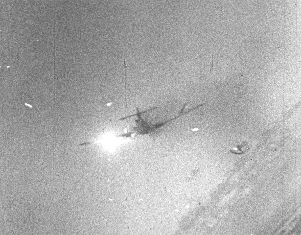 Photo of the shoot down of a German Messerschmitt Bf 109 by a fighter of the USAAF XIX Tactical Air Command in 1944-45.